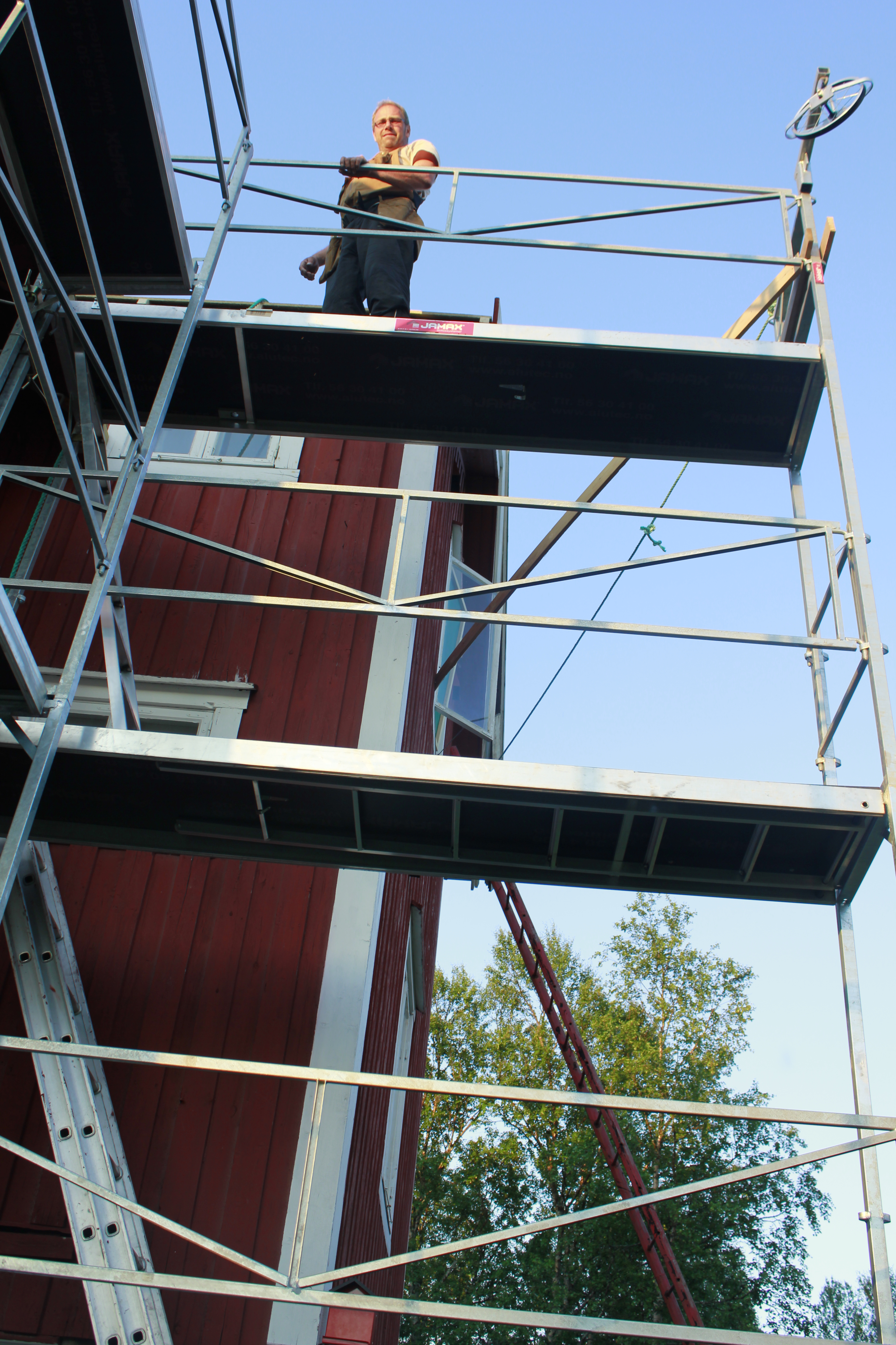 Aluminium scaffolding